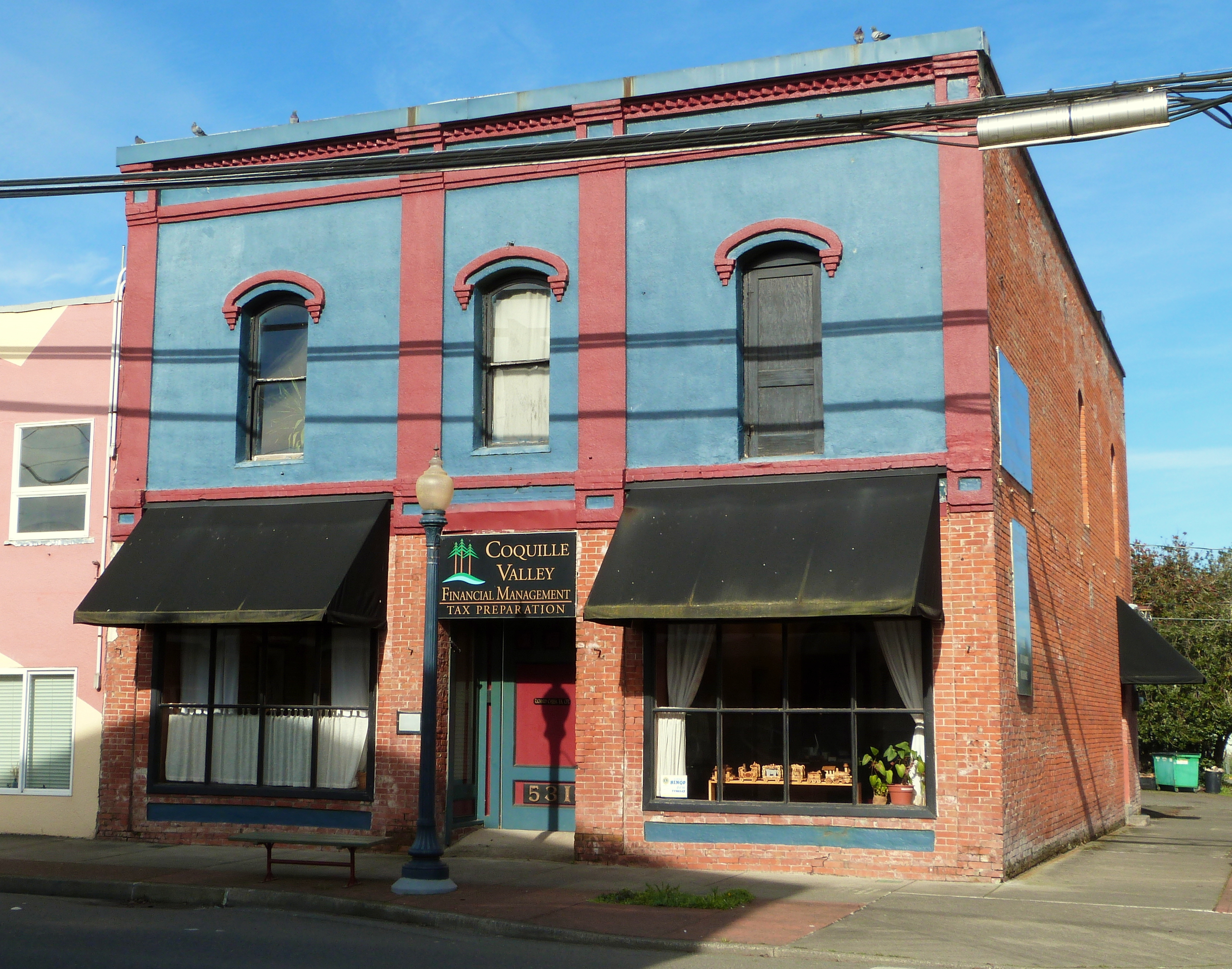 The historic A. H. Black and Company Building (built 1890), located at 531 Spruce Street in Myrtle Point, Oregon, United States, is listed on the US National Register of Historic Places.